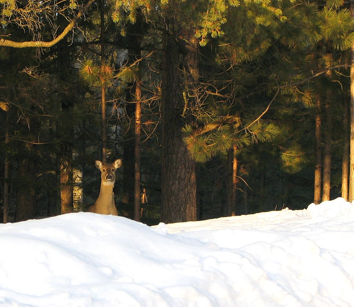 A white-tailed deer (Odocoileus virginianus) in a forest in Minnesota.